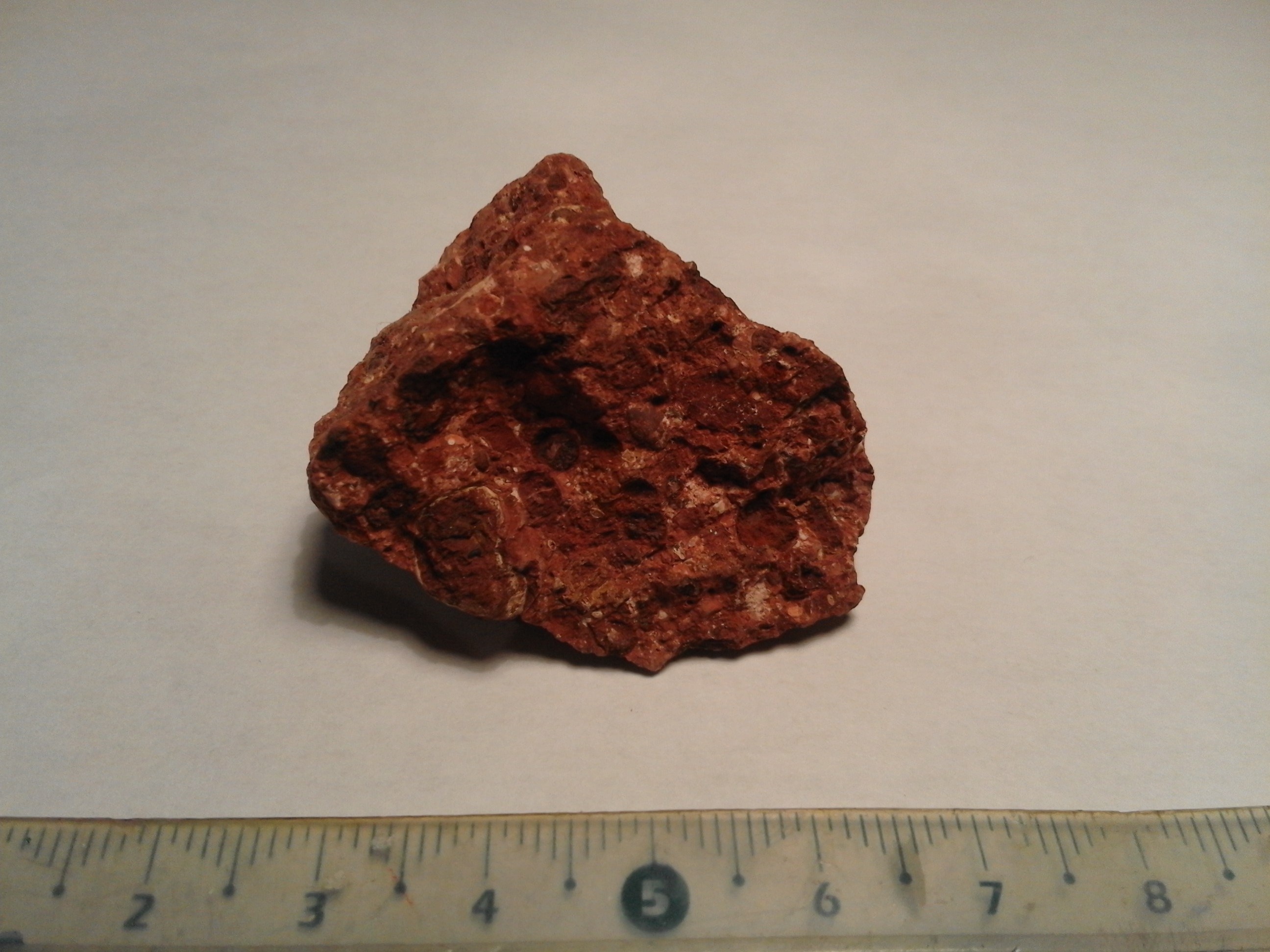 Bauxite sample from Hérault, France